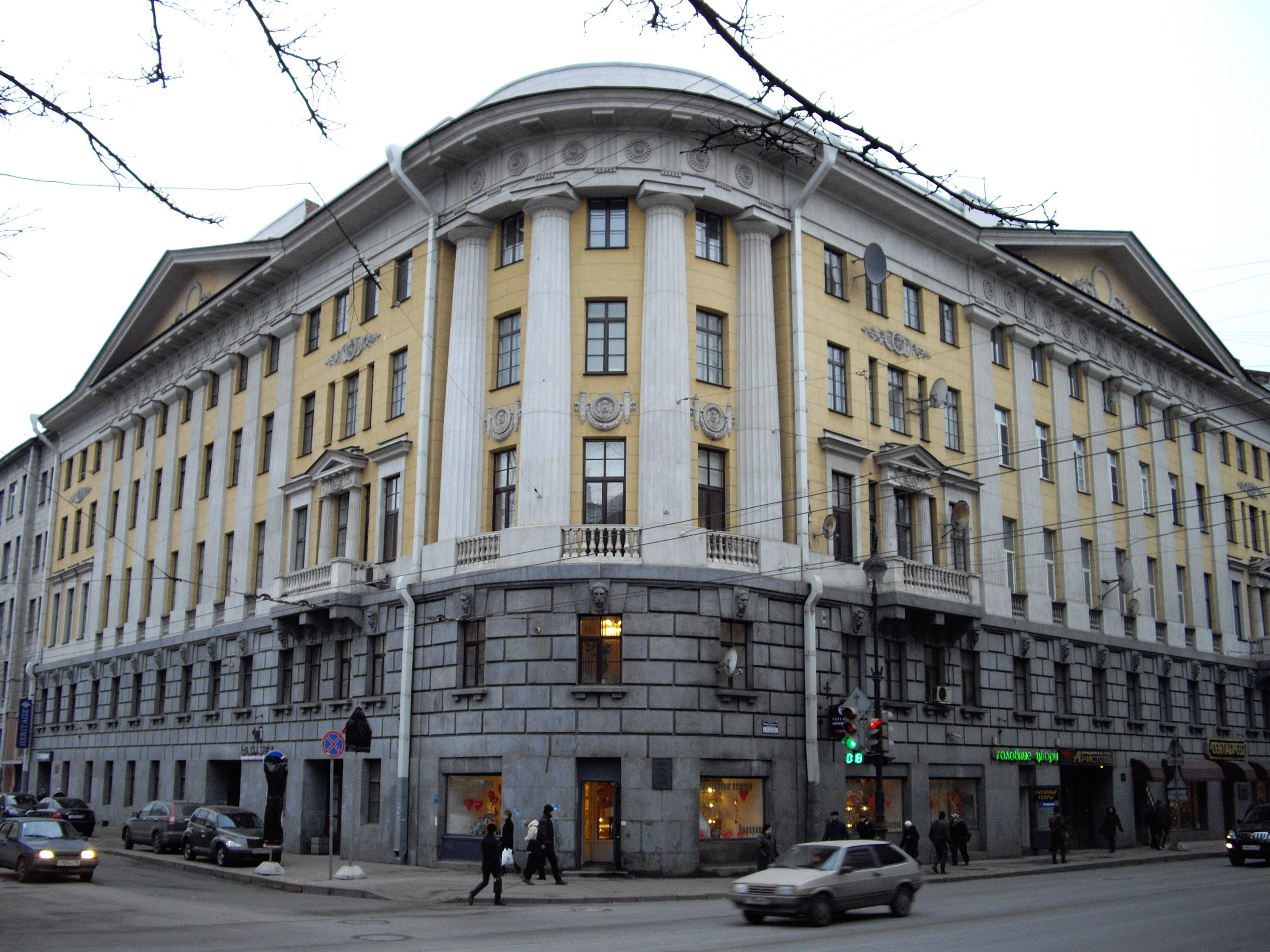 13, Bolshaya Monetnaya street and 19, Kamennoostrovsky Prospect, Saint-Petersburg, Russia. House of M. V. Voeikova, architect Sima Minash, 1911-1912.